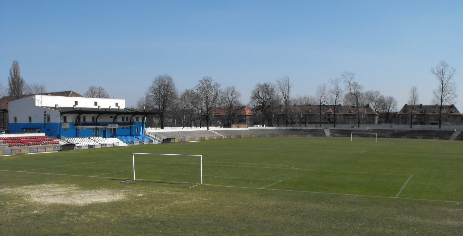 Stadium of Sparta Zabrze in Mikulczyce